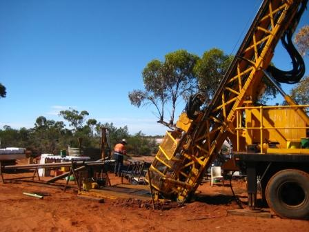 Picture of a flooded drill rig at the future Randalls Gold Mine